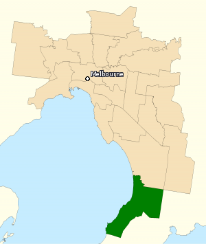 This image incorporates data that is: © Commonwealth of Australia (Australian Electoral Commission) 2009 Division of Dunkley 2010